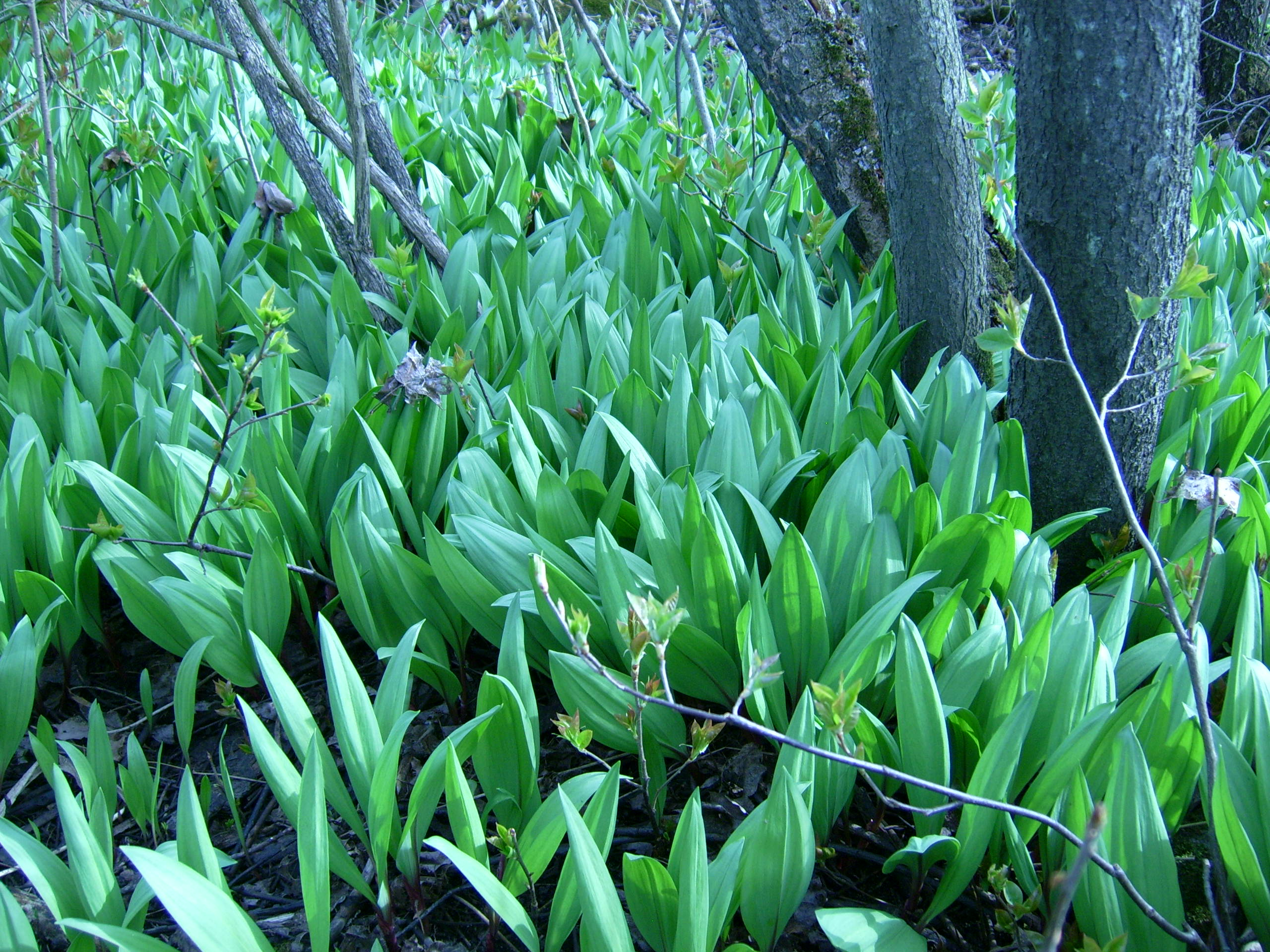 Wild leeks (Allium tricoccum), Whitefish Island, Batchewana First Nation